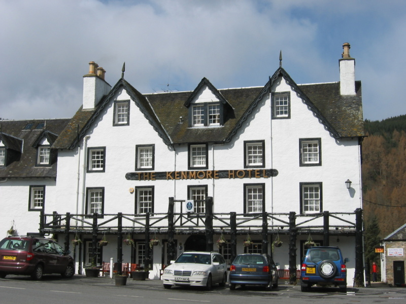 The Kenmore Hotel, Kenmore, Scotland. Photo taken by Dudesleeper on April 15, 2006.